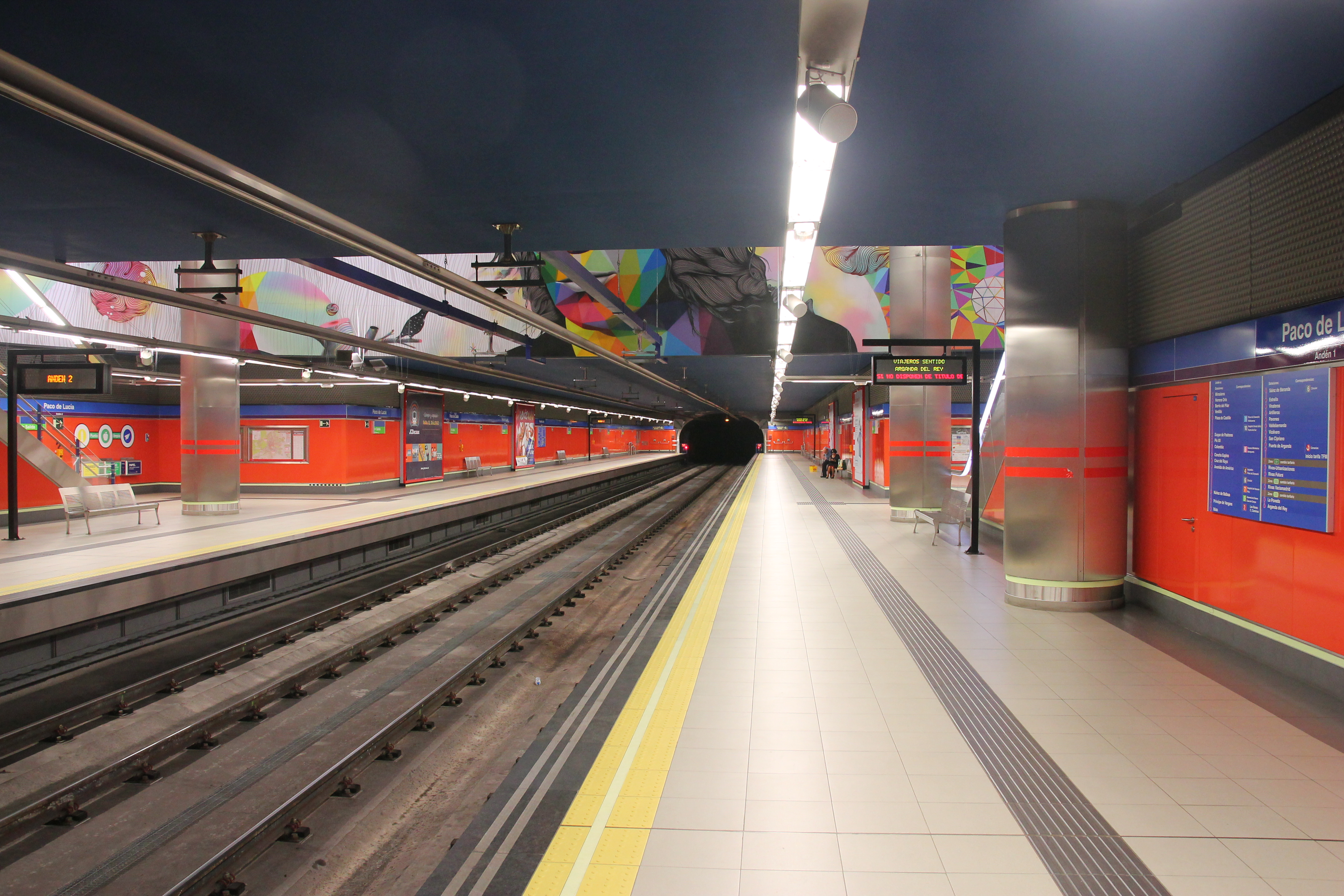 Estación de Paco de Lucía